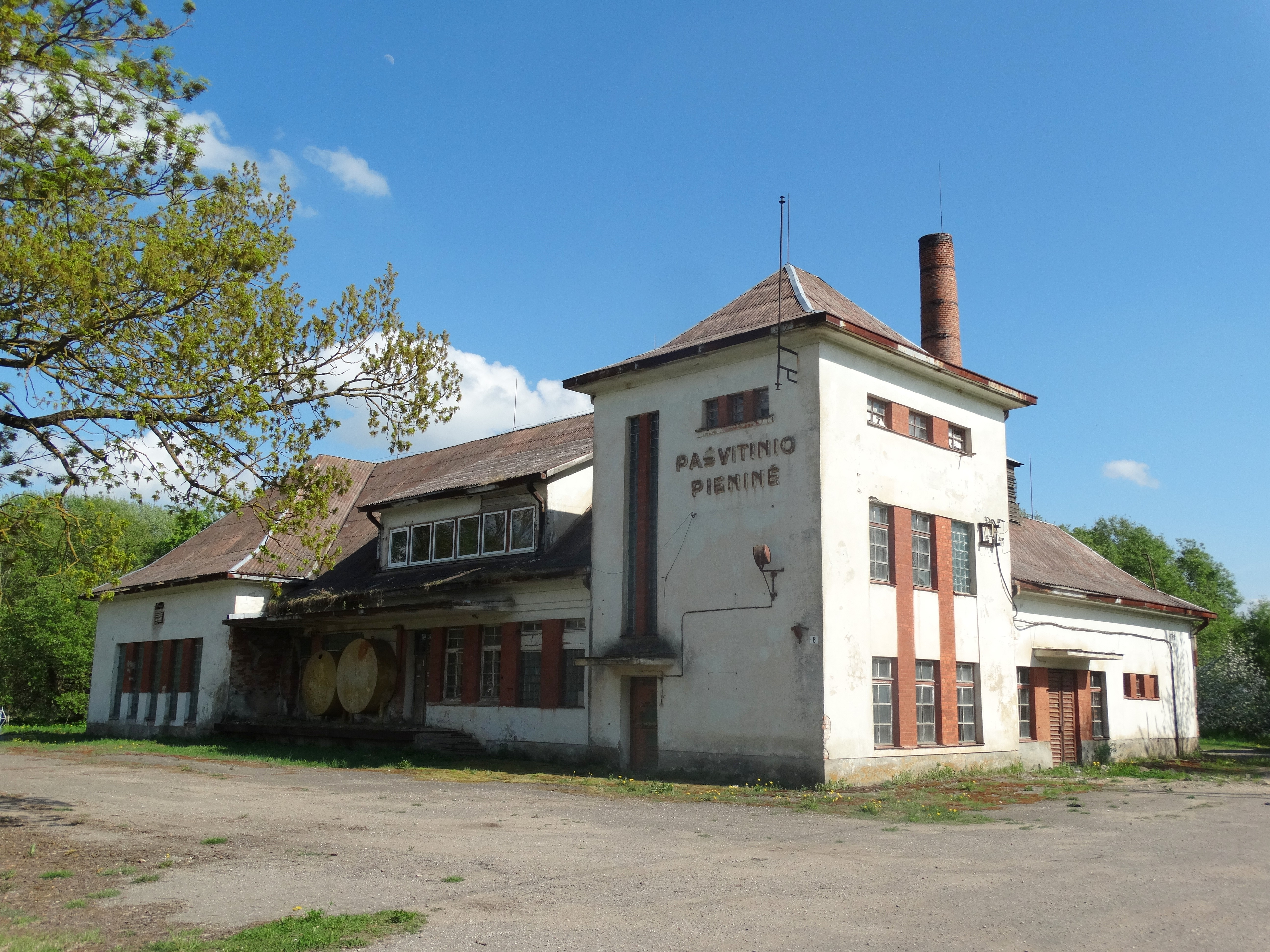 Windmill in Pašvitinys, Pakruojis District, Lithuania